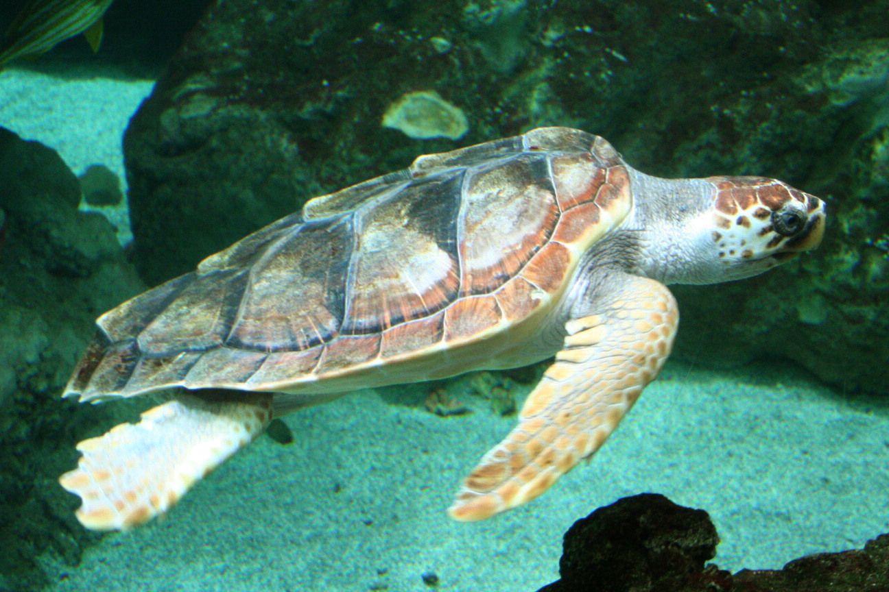 Caretta caretta (Loggerhead Sea Turtle) at Océanopolis, Brest, France.